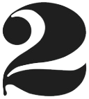 El Canal de las Estrellas logo